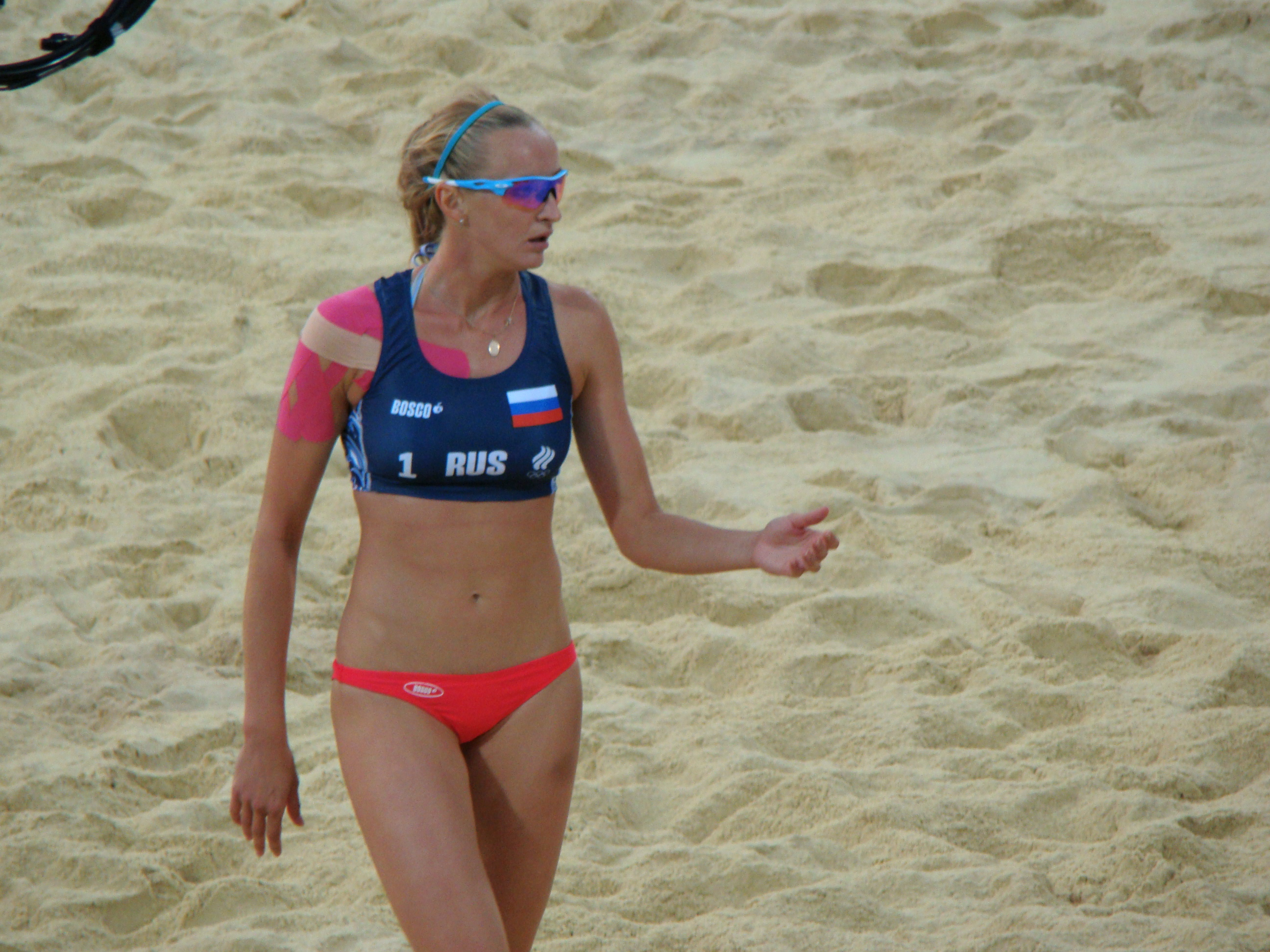 Ekaterina Khomyakova competing against the Canadian team in the 2012 Summer Olympics.